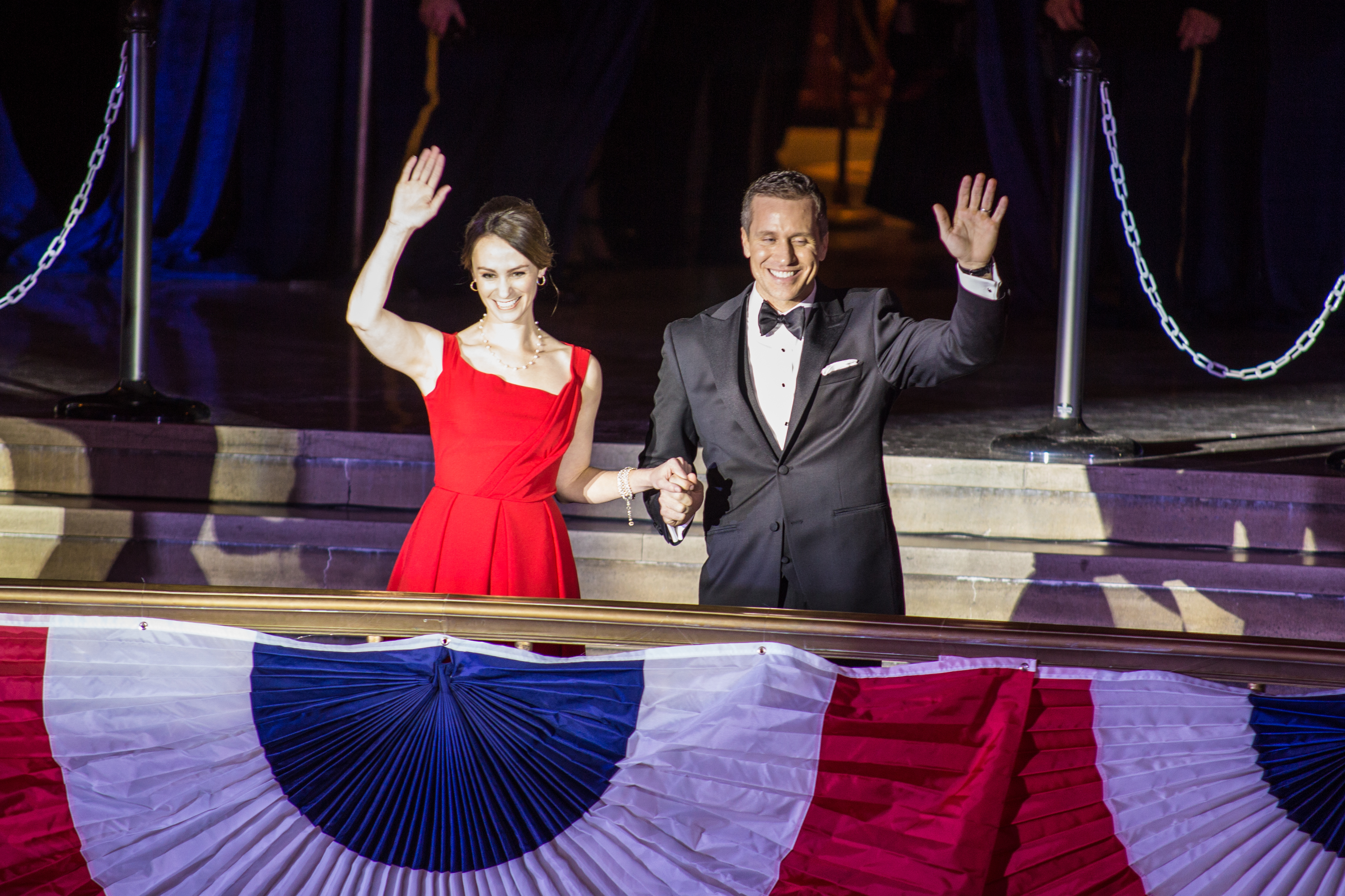 The newly sworn-in Missouri governor Eric Greitens (right) and his wife Sheena Greitens are introduced during the inaugural ball in Jefferson City, Mo., Jan. 9, 2017. Missouri Gov. Eric Greitens was sworn-in as the 56th governor of Missouri earlier in the day at the State Capitol in Jefferson City. (Missouri National Guard photo by Staff Sgt. Patrick P. Evenson)